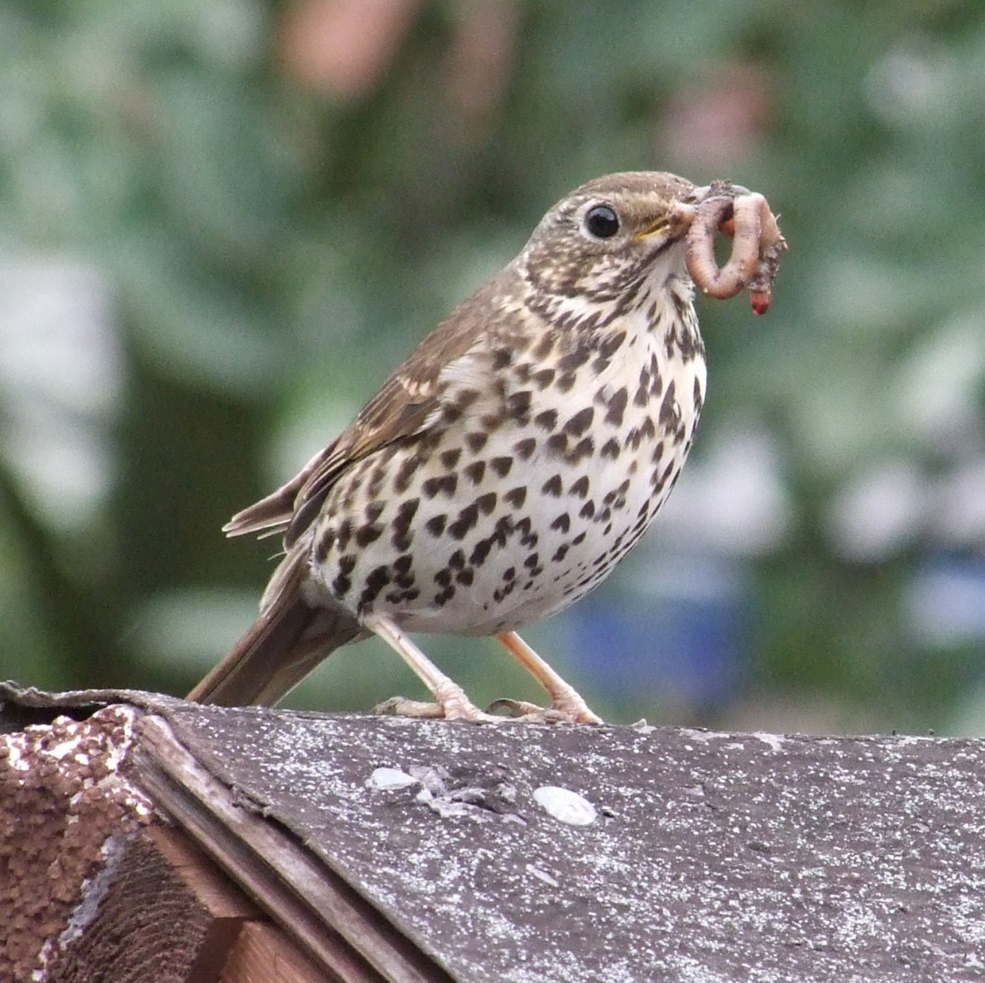 Song Thrush